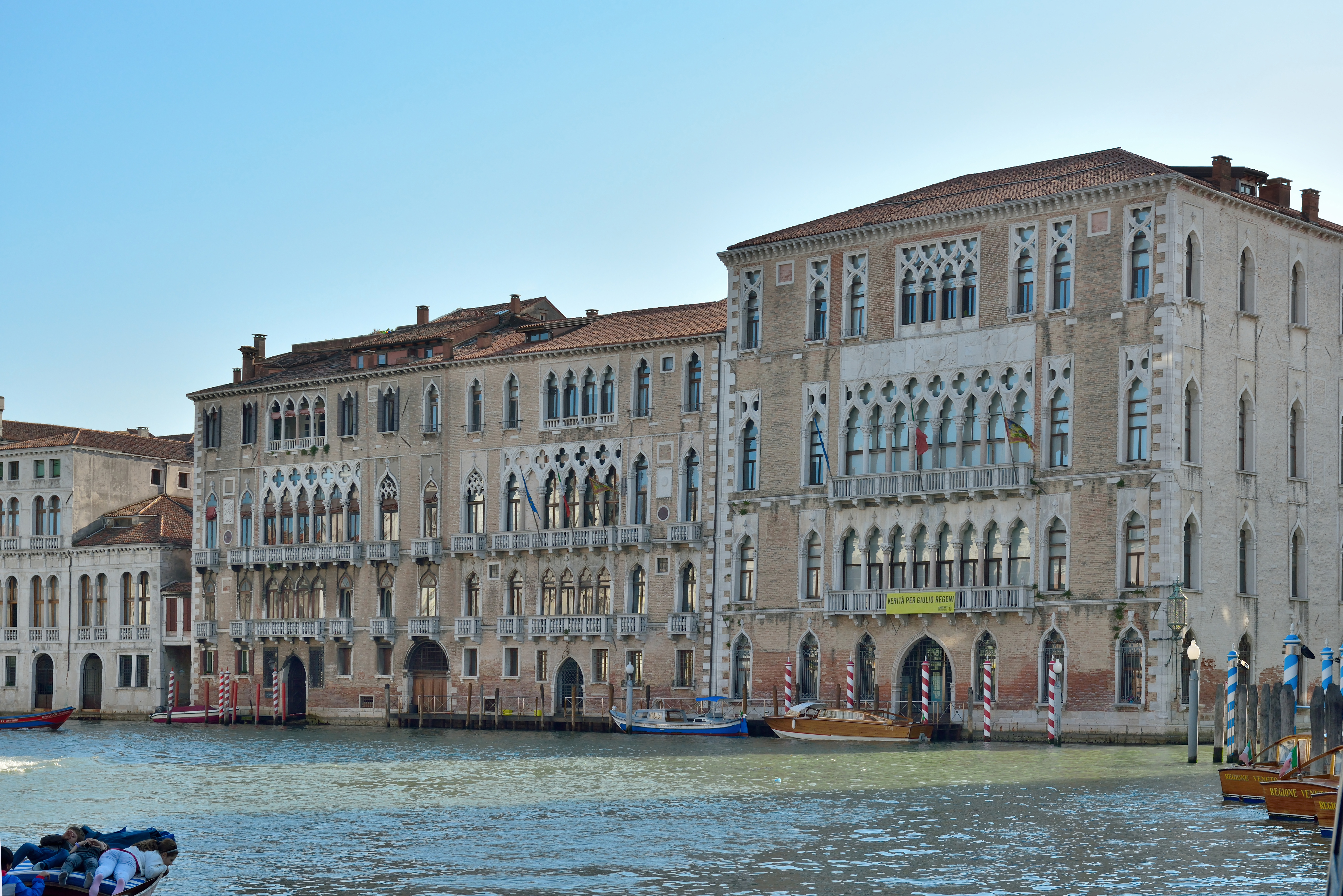 Ca' Foscari right and Palazzo Giustinian left in Venice. Facade on Grand Canal.